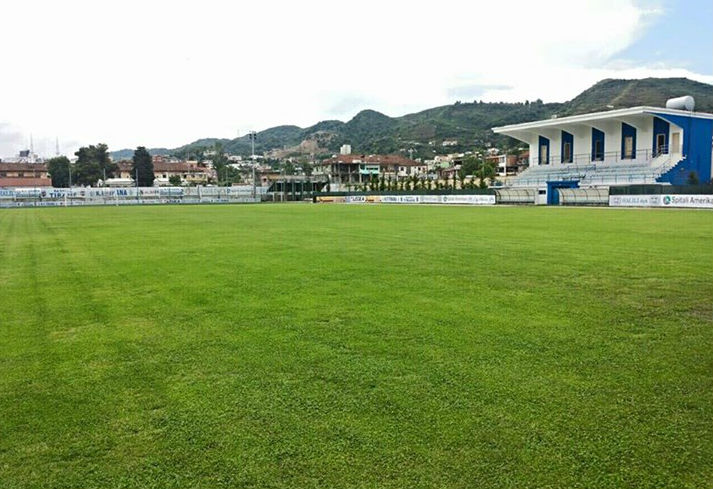 Photo of the Skënder Halili Complex located in Tiranë, Albania